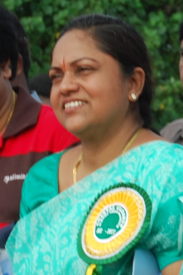 The U.S Consulate Chennai celebrated its two-year anniversary on Facebook with U.S. Consul General Jennifer U.S. Consul General Jennifer McIntyre commemorated World U.S. Consul General Jennifer McIntyre joined actor Vivek, Ministers K. P. Munusamy and T. K. M. Chinnayya, Mylapore MLA R. Rajalakshmi, and Indian Maritime Foundation Vice President and Rear Admiral (retired) K.R. Srinivasan – as well as thousands of volunteers – at the launch of the International Coastal Clean Up 2011 in Chennai on Saturday, September 3, 2011. Noting her background growing up near the Chesapeake Bay in Maryland and how the issue of clean waterways is “very near and dear” to her, CG McIntyre said she was “thrilled to be a part of this effort.” According to news reports, the event netted over 35,000 kg of coastal debris.